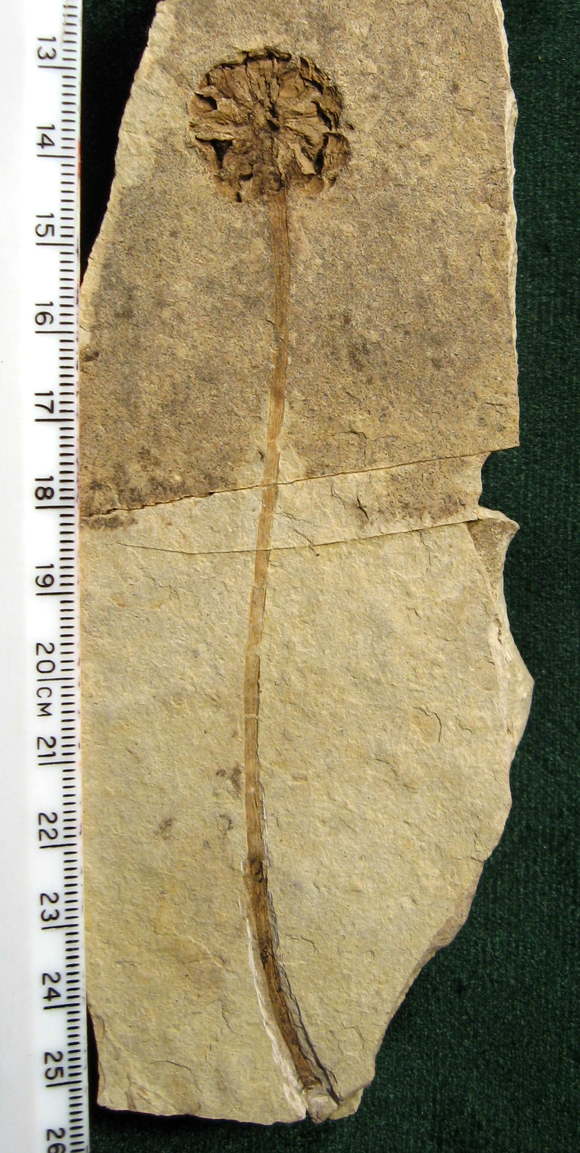 A 14cm long Metasequoia occidentalis female cone on petiole. Klondike Mountain Formation, Republic, Ferry County, Washington, USA, Eocene, Ypresian, 49 million years old. Stonerose Interpretive Center Collection #